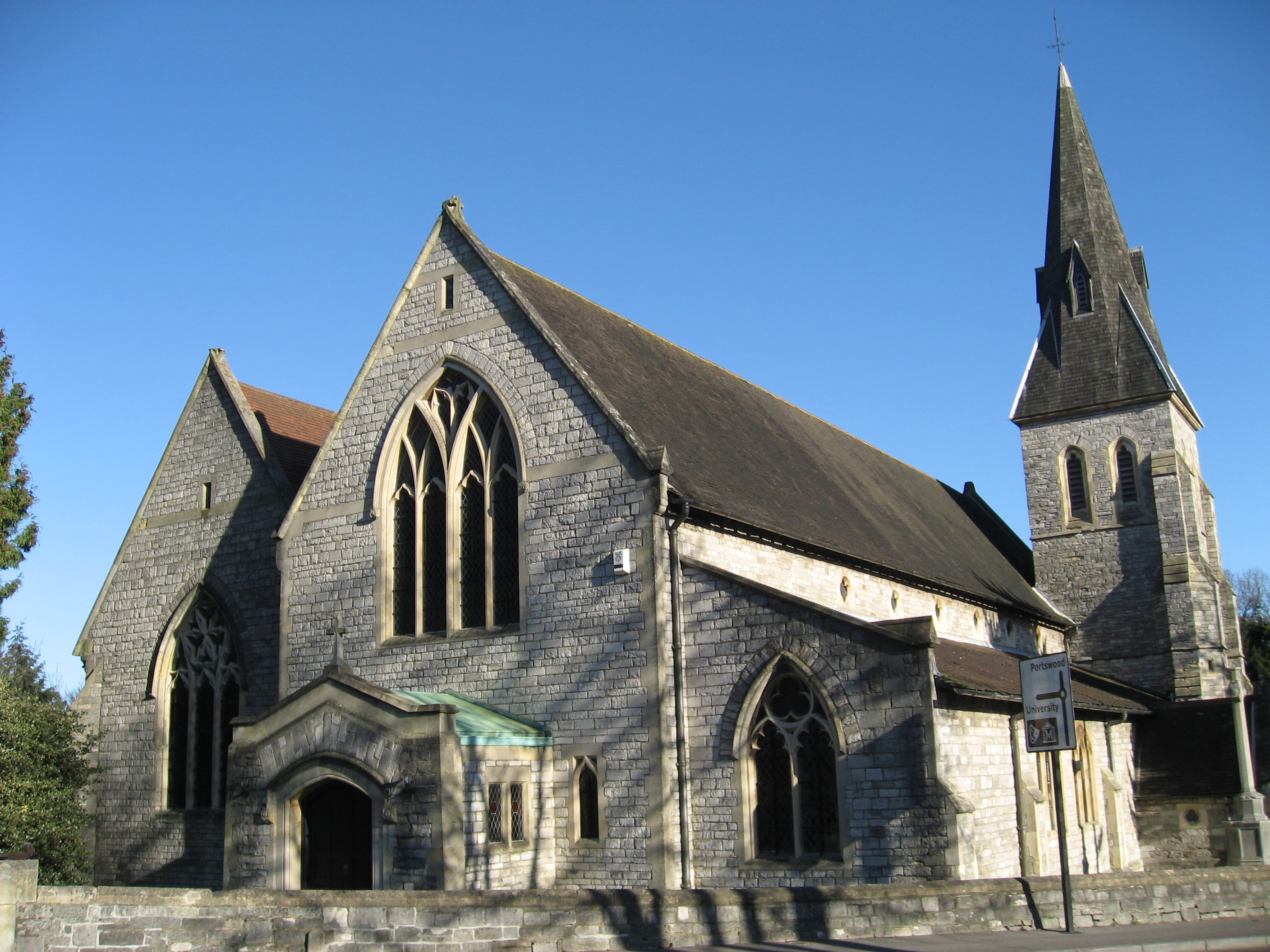 Highfield Church, Southampton, UK. Photo taken by Alan Ford 2007-02-03.